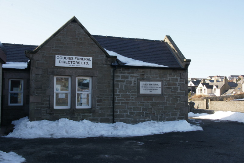 The former Gilbert Bain Hospital, now Goudies Funeral Directors, Lerwick The plaque on the side of the building reads 'Gilbert Bain Hospital Gifted to Lerwick in memory of Gilbert Bain By his sisters Enga and Isabella 1901' Although no longer housed in this building, the current Shetland hospital, opened in 1960, is still named the Gilbert Bain Hospital. There is something slightly macabre about a former hospital currently housing a funeral directors. Gilbert Bain was born in Lerwick on April 29th 1809, died in Edinburgh on March 23rd 1886 and spent his working life in India and Singapore, where he made his fortune. He was unmarried and his sisters inherited his estate.